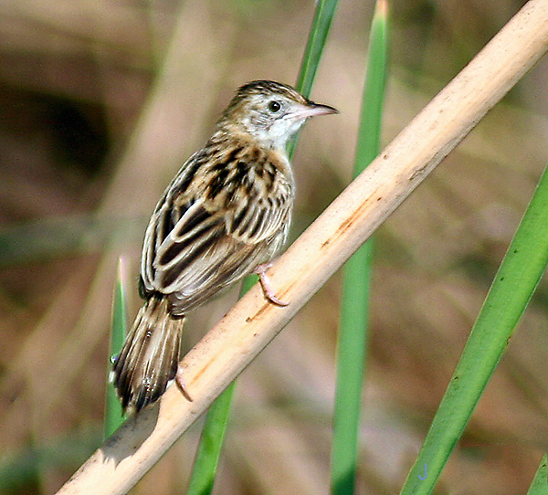 Zitting Cisticola Cisticola juncidis in Kolkata, West Bengal, India.